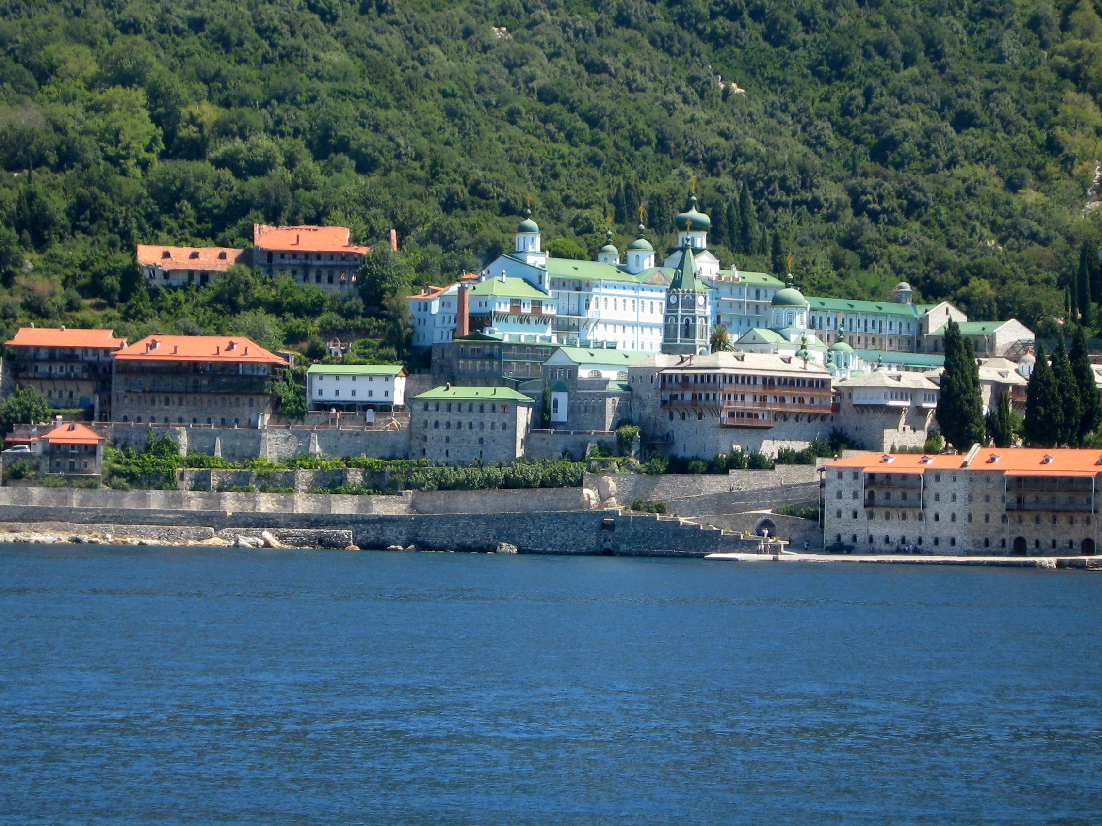 Mount Athos, Agiou Panteleimonos monastery (Rossikon)